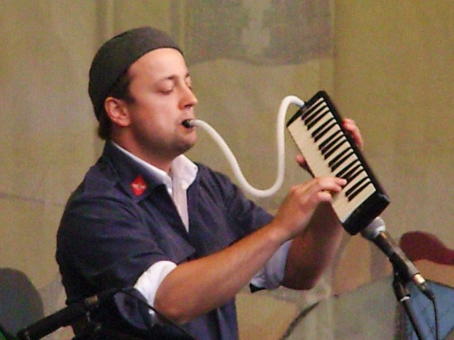 Czesław Mozil in Gdańsk.